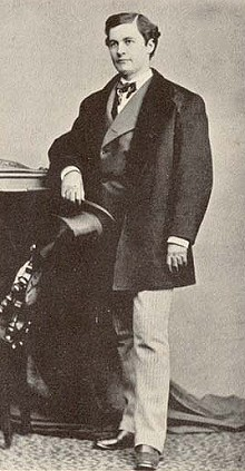 J. C. Williamson, c. 1868